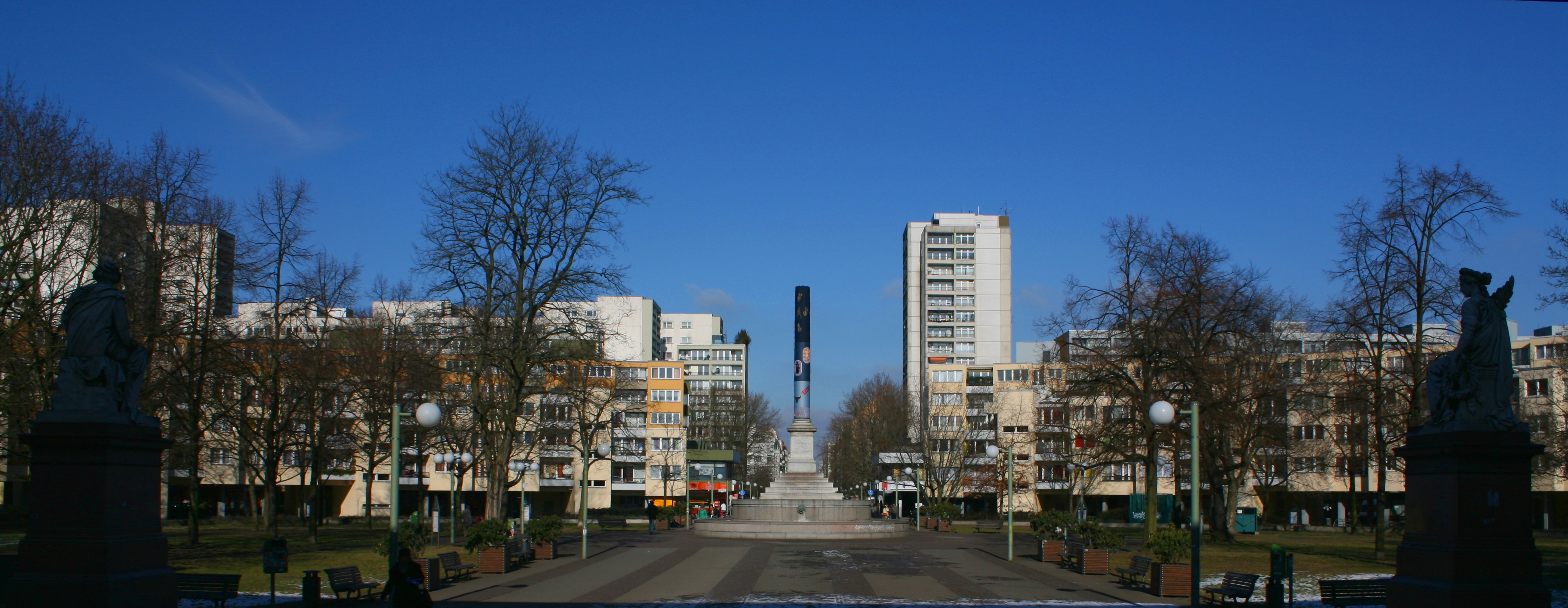 Mehringplatz in Berlin (Kreuzberg) at February 2009